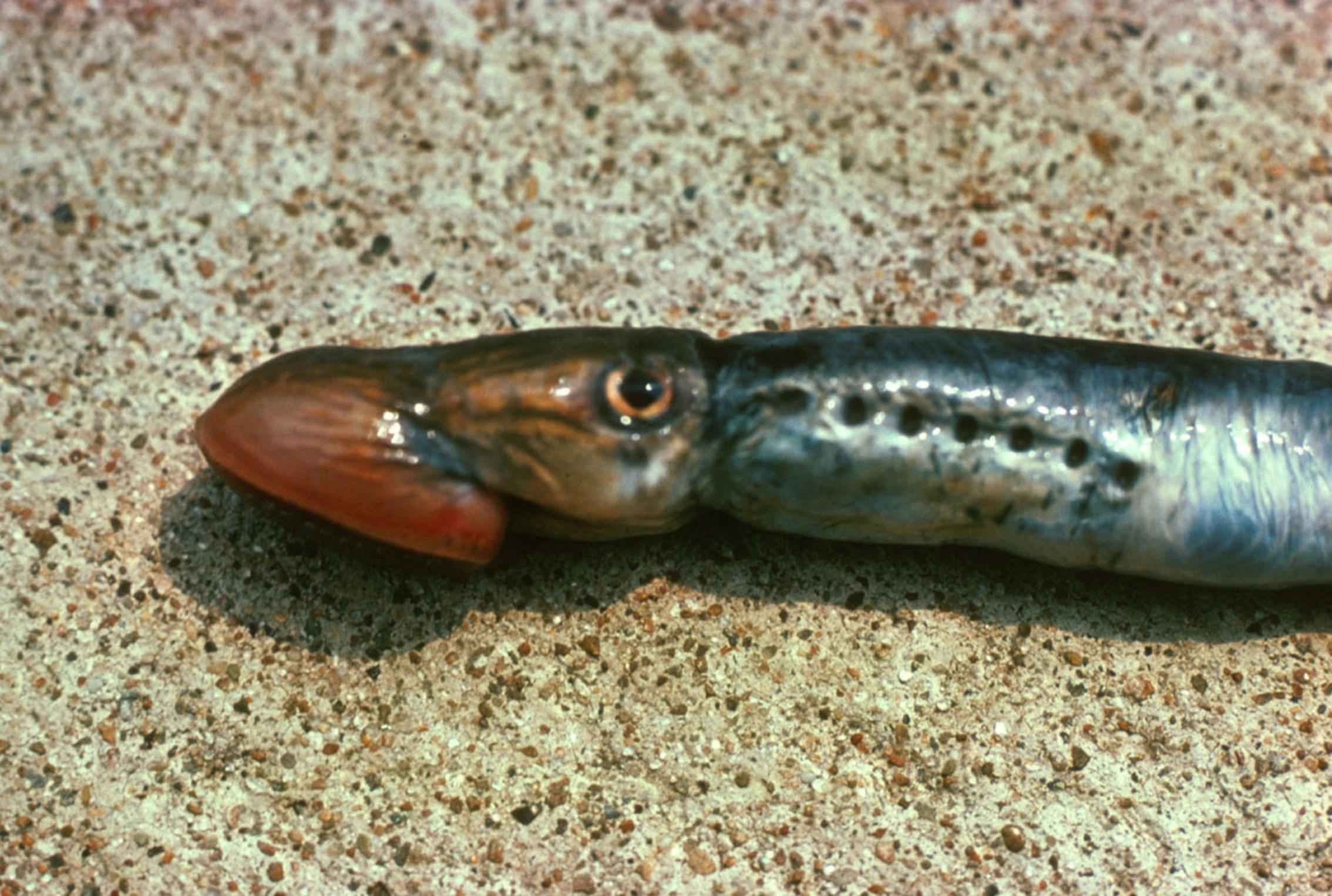 Image title: Sea lamprey (Petromyzon marinus) Image from Public domain images website